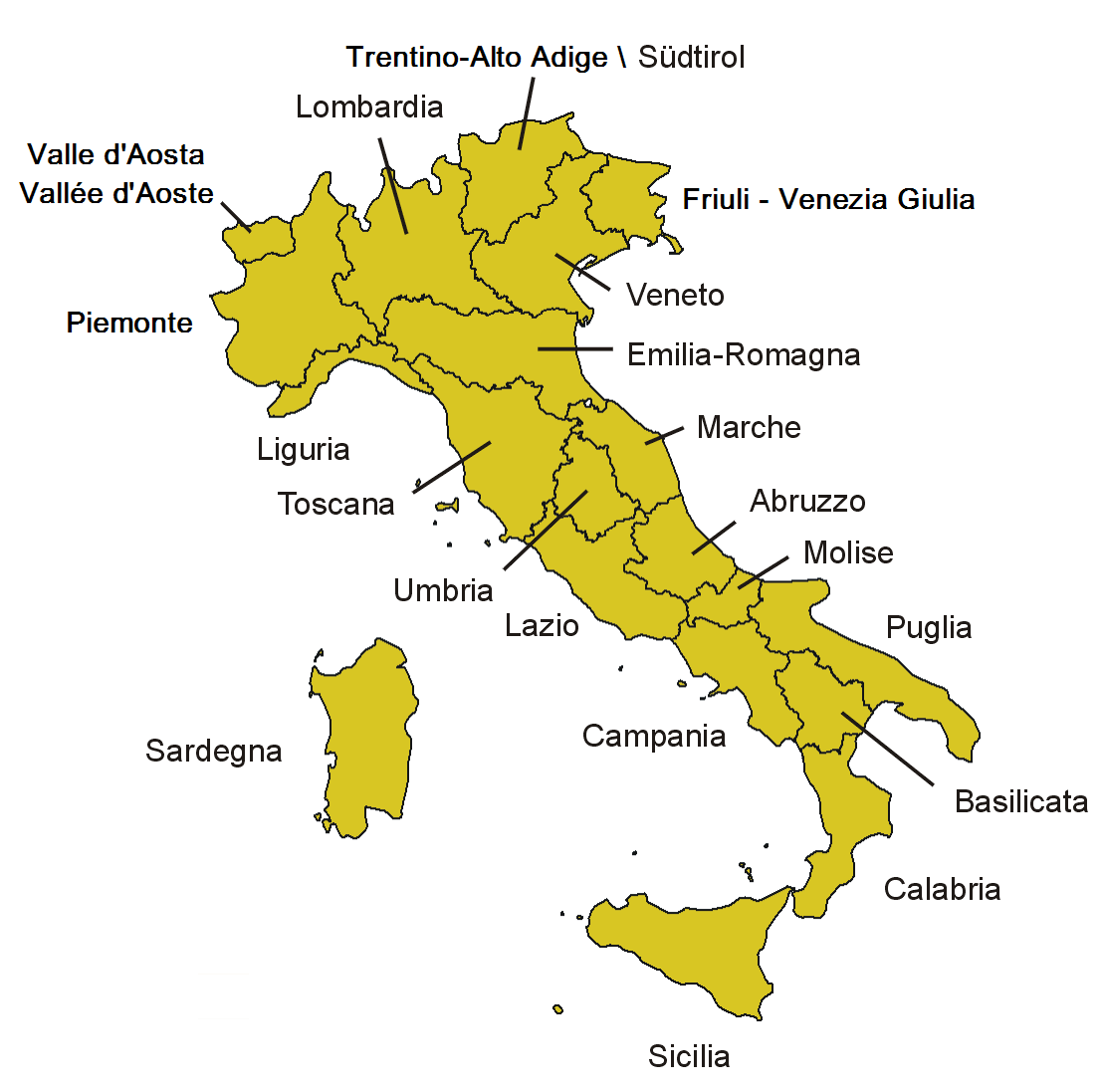 Regions of Italy with official names